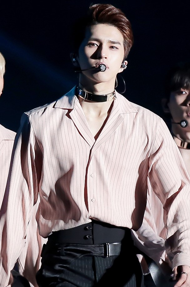 Ken at 25th Seoul Music Awards, on January 14, 2016.